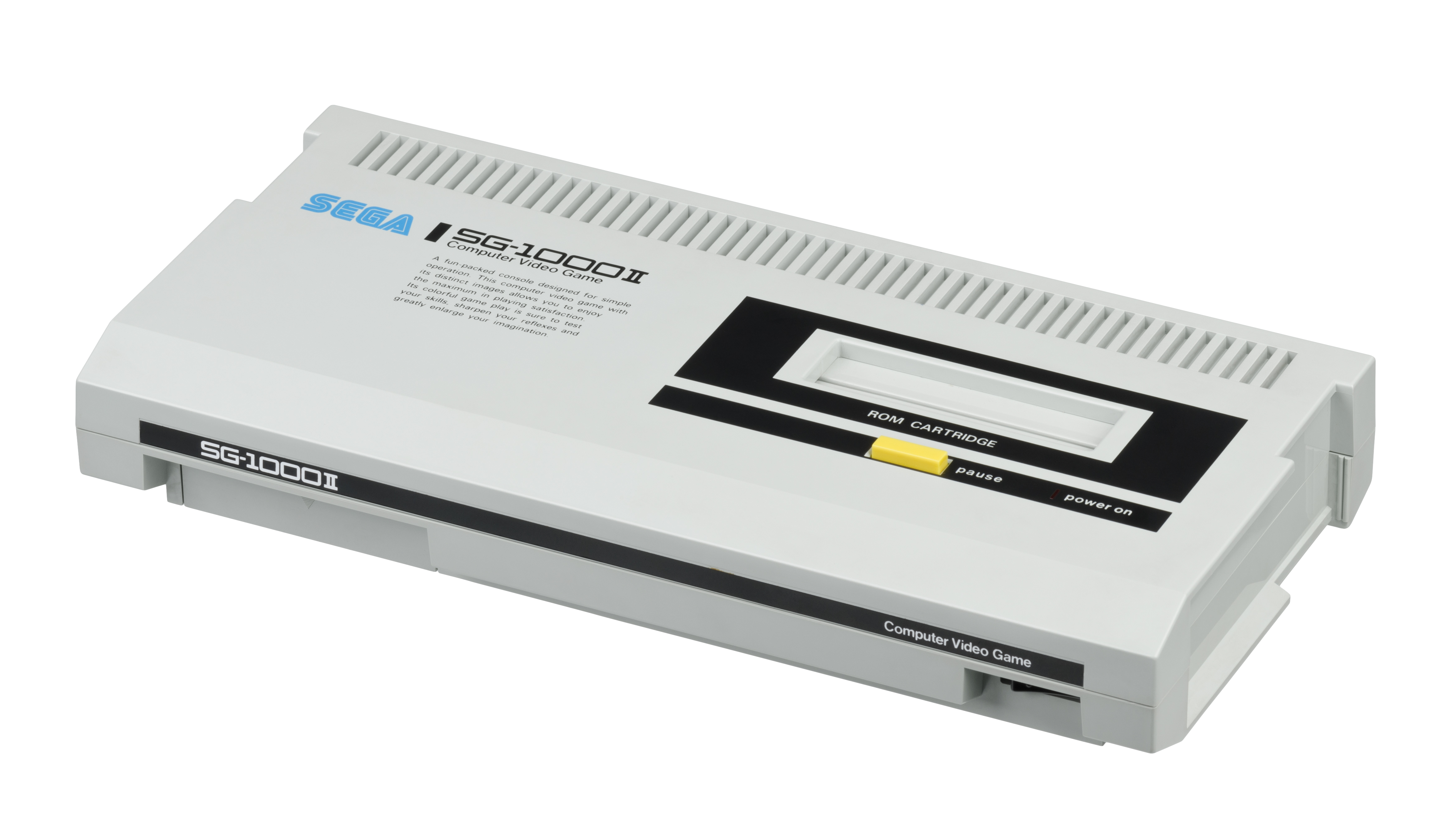 The Sega SG-1000 II (also sometimes called the SG-1000 Mark II), Sega's first video game console that was released in Japan in 1984. This is a revision of the first model, which added removable joypad controllers and moved the expansion port to the front. Based off of the Zilog Z80, the console's graphics were comparable to the ColecoVision. It was replaced by a revised version, the SG-1000 Mark III, only a year later.